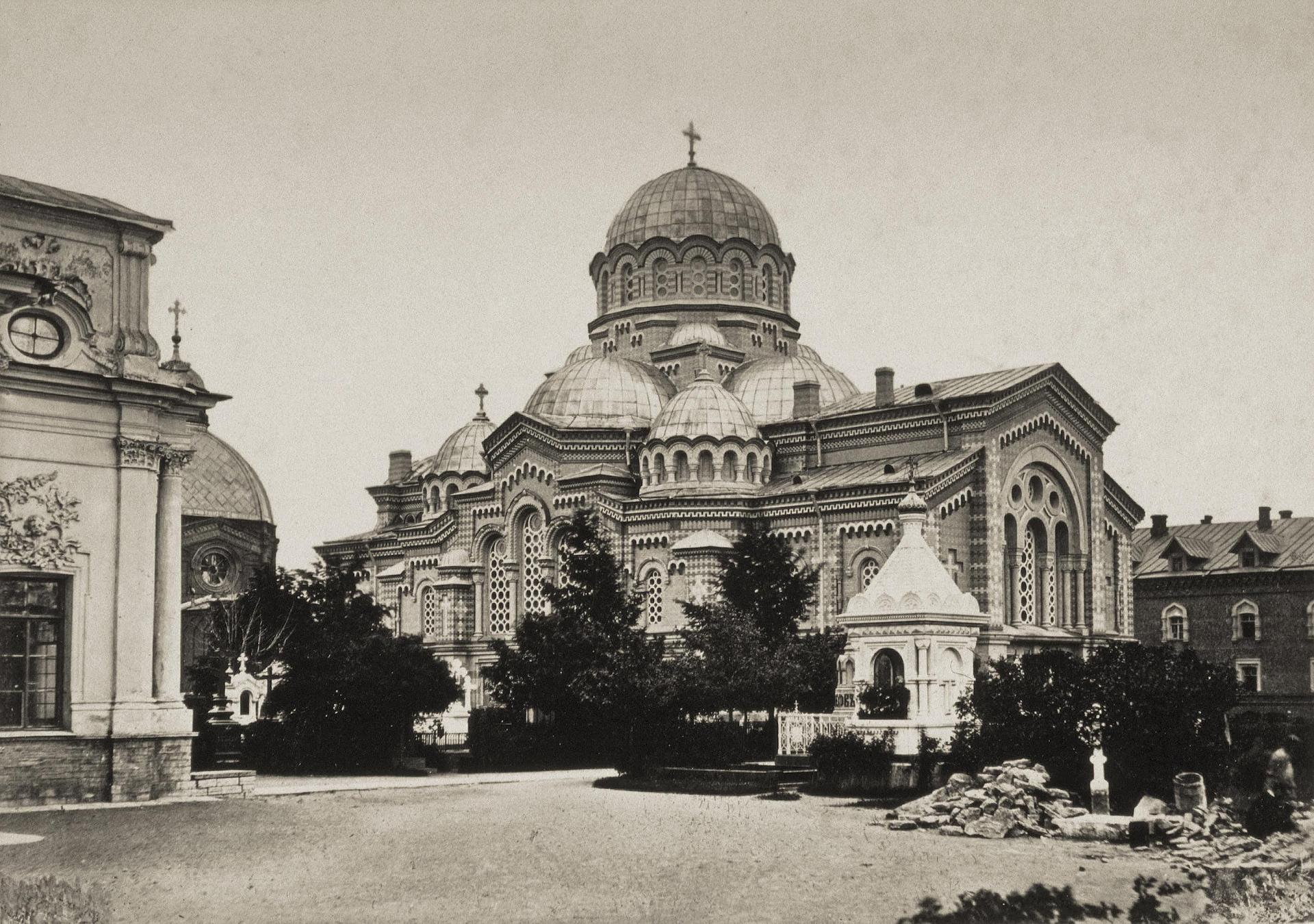 Saint Petersburg (Russia), Strelna, Coastal Monastery of St. Sergius